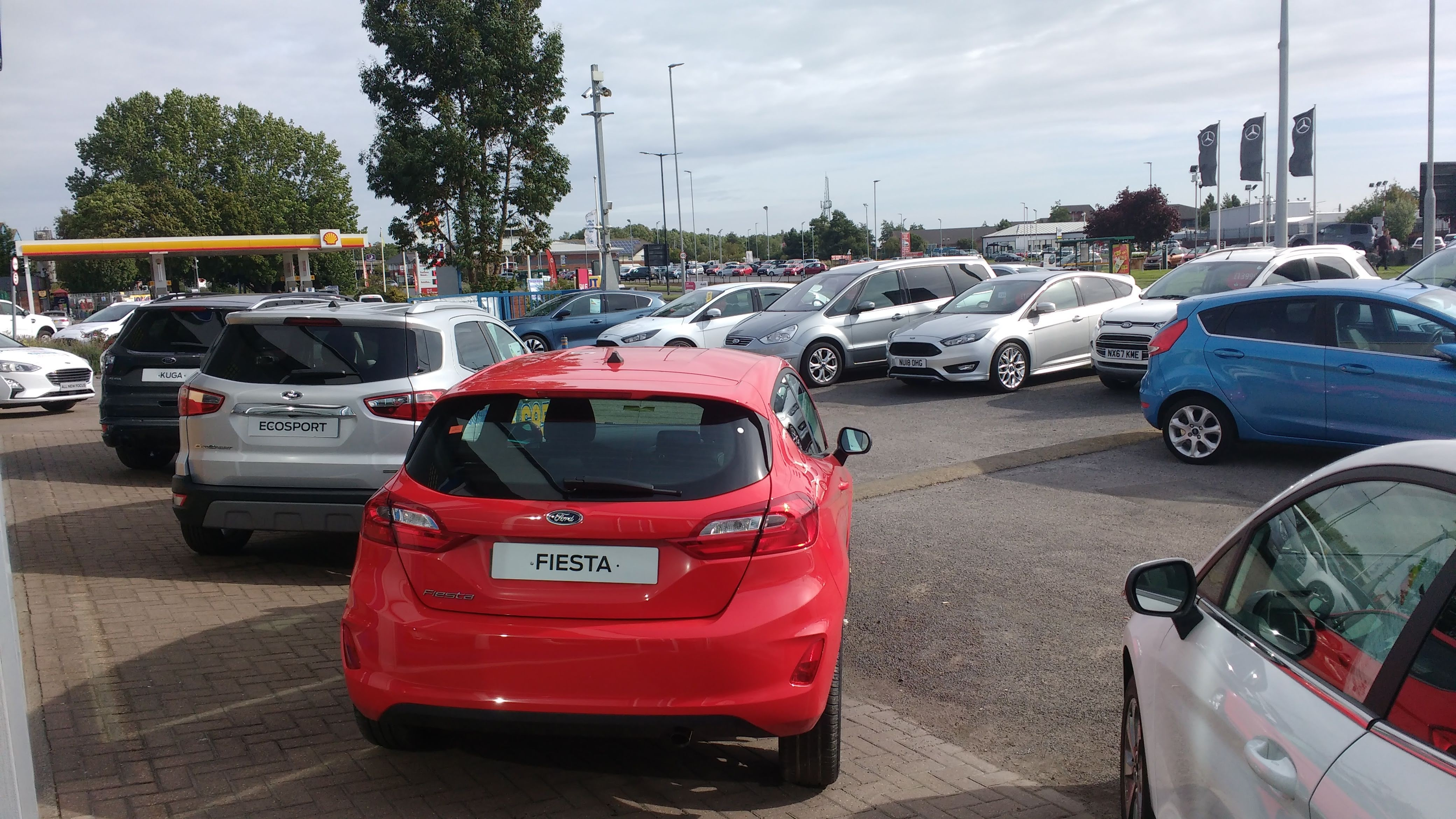 Ford Fiesta 2018